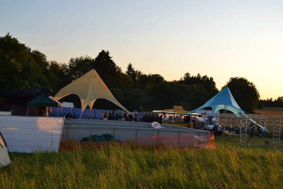 Pool 2012